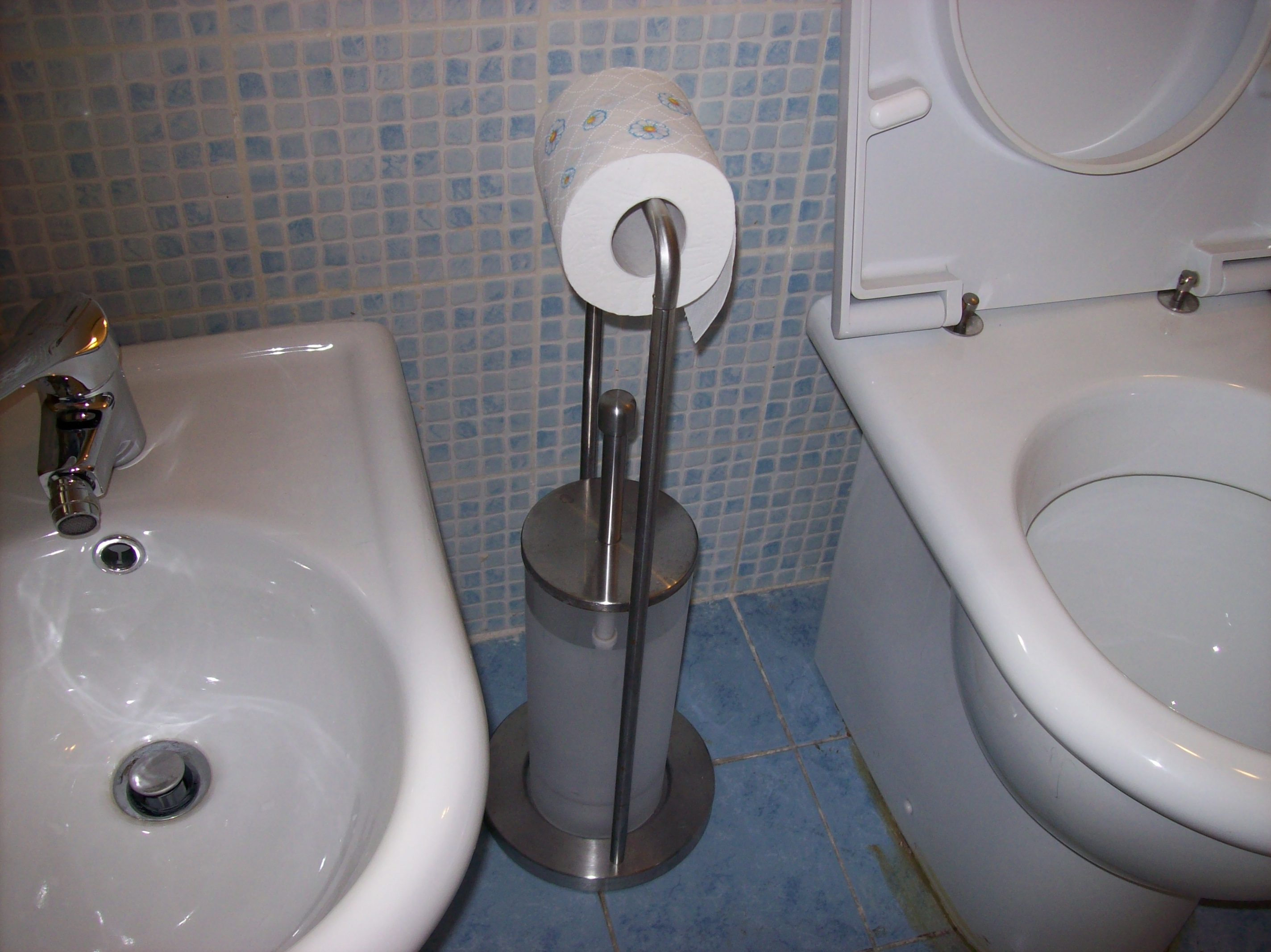 Adding my contribution to the highly debated “Toilet paper orientation” topic. As you can see, my toilet paper holder — unlike Möbius’s strip wich is not-orientable — is multi-orientable. Thus, according to my guests’ preferences, they can choose whether having the over or under paper orientation and possibly do not act against their religious or philosophical convinctions. The only thing I require is that they leave the toilet clean once they’re done. Hope you won’t mind if, for privacy reasons, I don’t put coords in this picture…